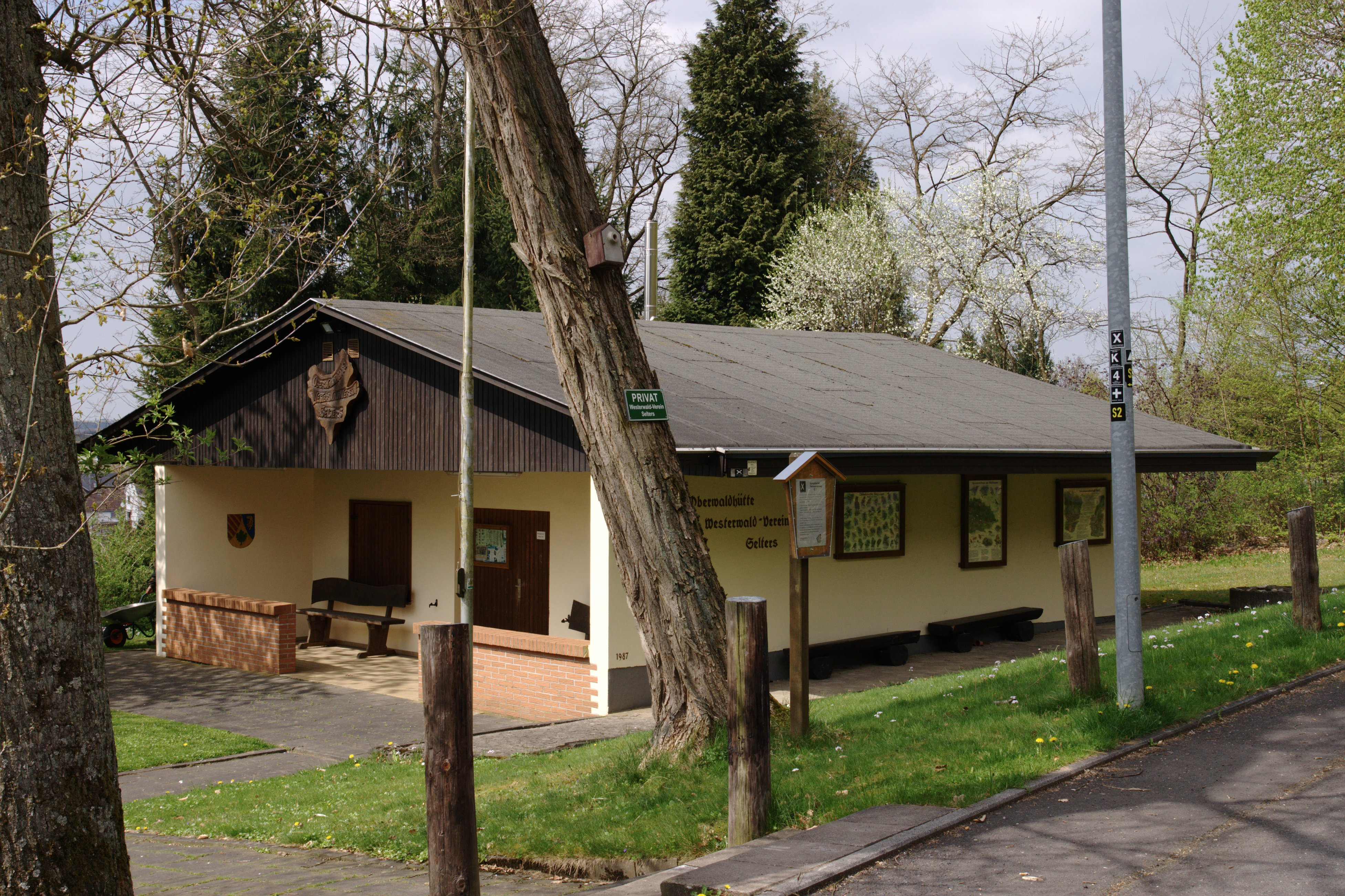 Hiker's home of Westerwaldverein hiking and tourism club in the vicinity of Selters, Westerwald region, Rhineland-Palatinate, Germany. The home is situated directly next to several hiking trails